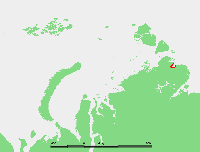 Nordensjelda Islands